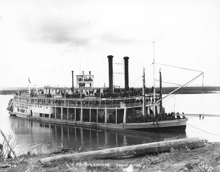 Caption on image: "A.C. Co. str. Hannah. Yukon River" Original image in Hegg Album 17, page 39. Subjects (LCTGM): Stern wheelers--Yukon; Rivers--Yukon Subjects (LCSH): Hannah (Stern wheeler); Yukon River (Yukon and Alaska)